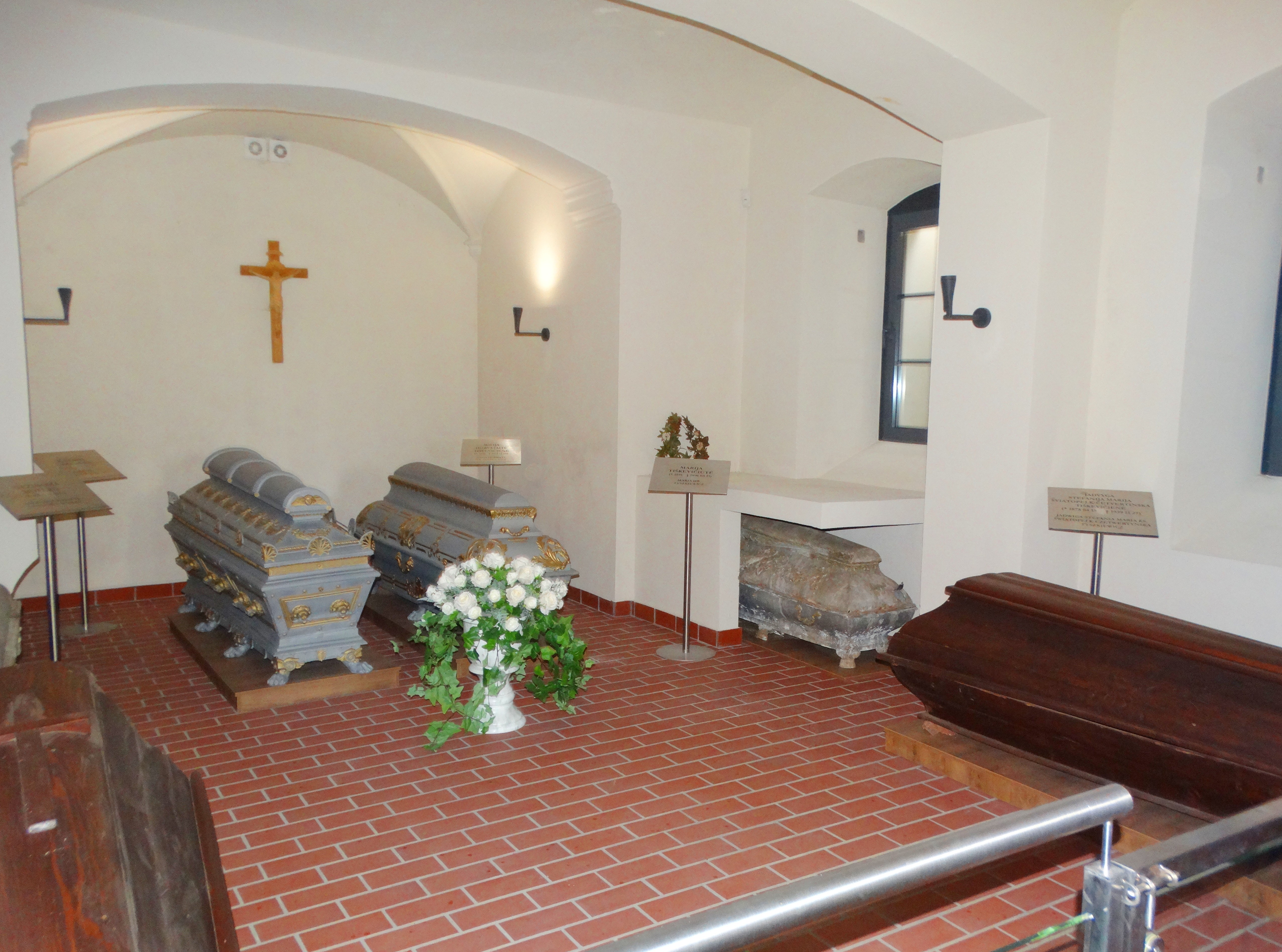 Tyszkiewicz family chapel, crypt, Kretinga, Lithuania